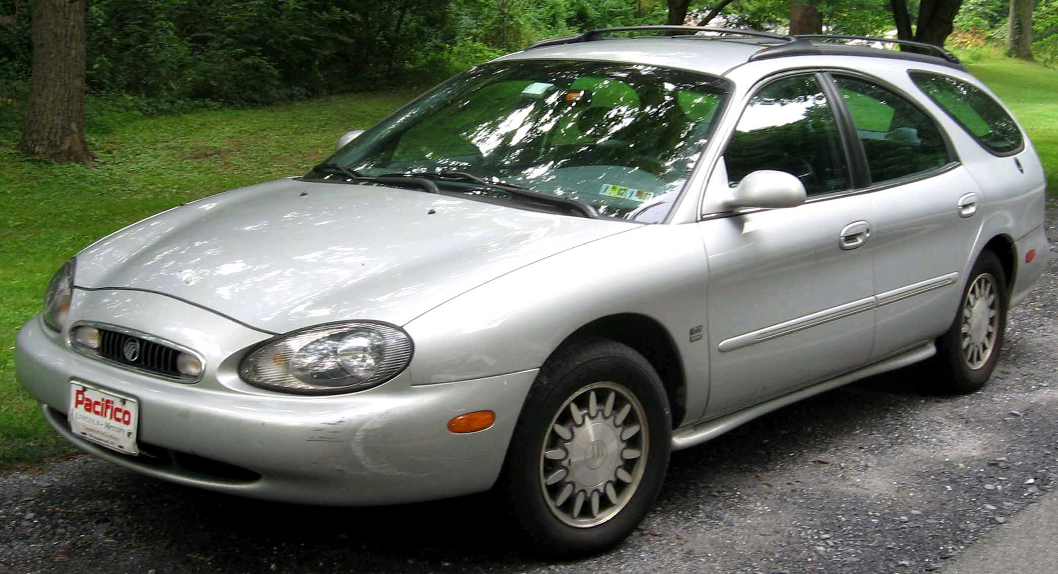 1996-1999 Mercury Sable photographed in Kensington, Maryland, USA.